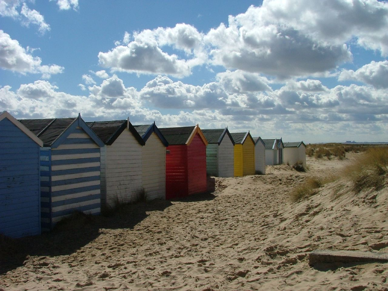 Beach huts at Southwold, Suffolk, England